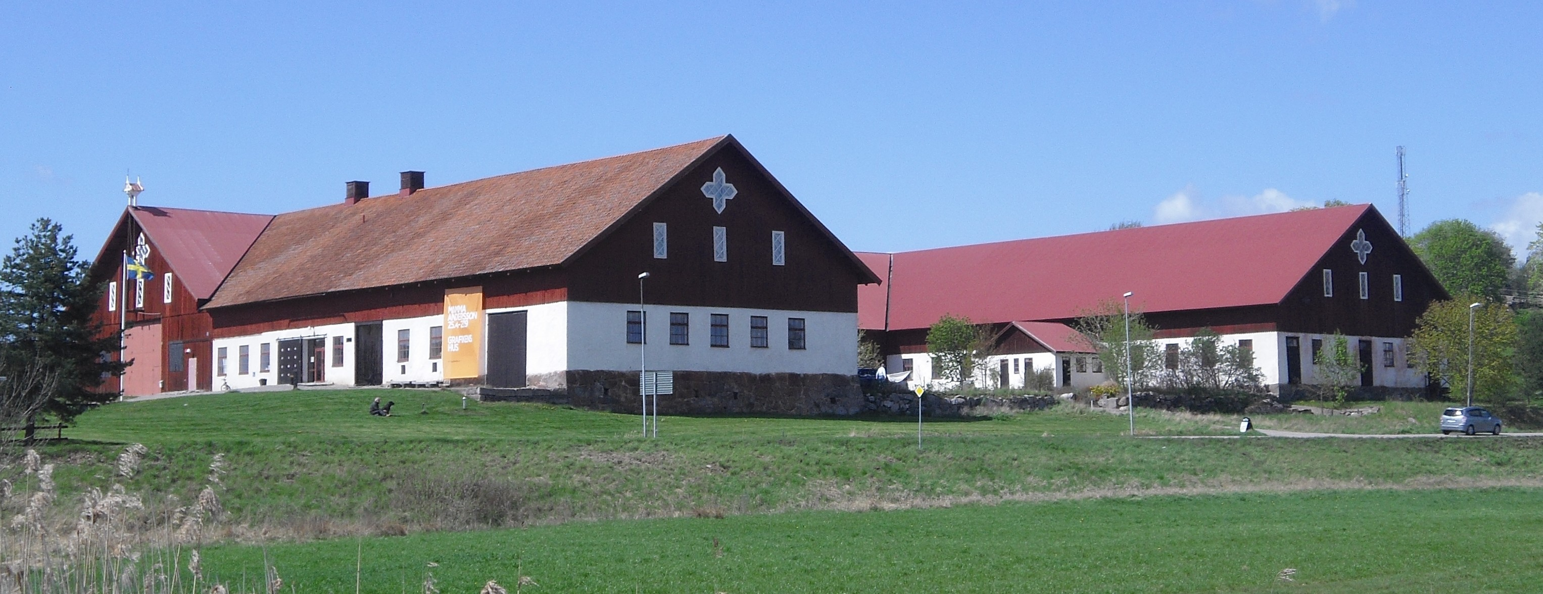 Grafikens Hus, the international centre for Fine Arts printmaking, in Mariefred, Sweden